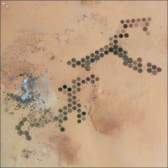 Astronaut photo of the Al Khufrah Oasis in Libya. The circular objects are agricultural fields. The shape is characteristic of center pivot irrigation. These fields are approximately 0.6 mile (1 kilometer) in diameter. Darker colors indicate fields where such crops as wheat and alfalfa are grown. Lighter colors can indicate a variety of agricultural processes: fields that have been harvested recently; fields that are lying fallow; fields that have just been planted; or fields that have been taken out of production.